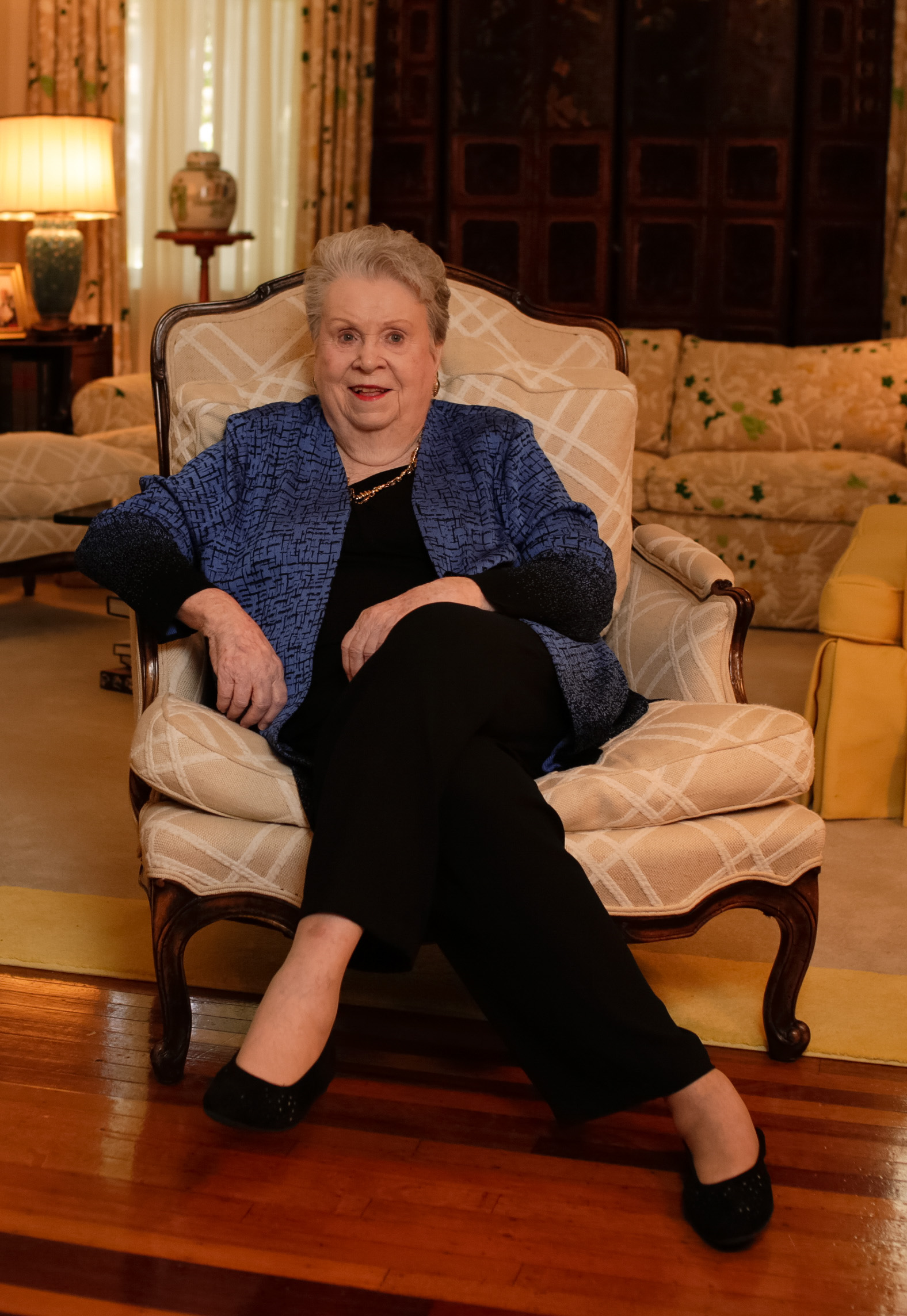 Ella Brennan in her New Orleans home next to Commander's Palace in New Orleans.